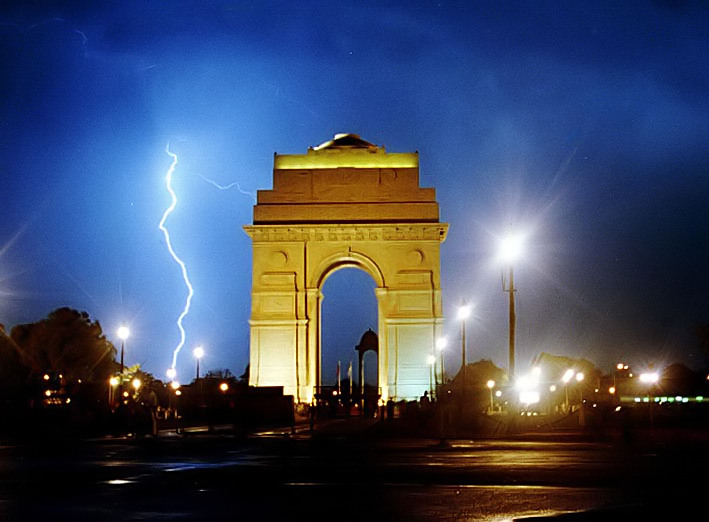 India Gate, Delhi